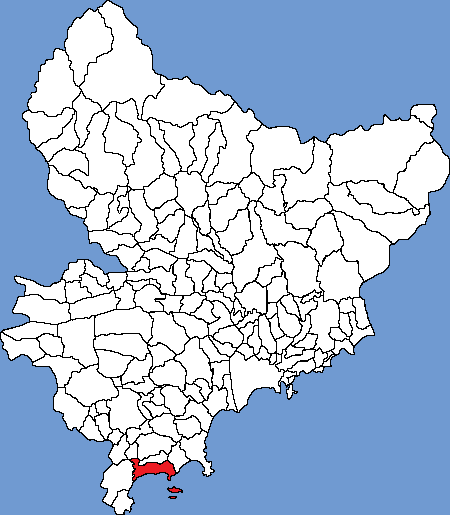 Localisaton of Cannes in Alpes-Maritimes